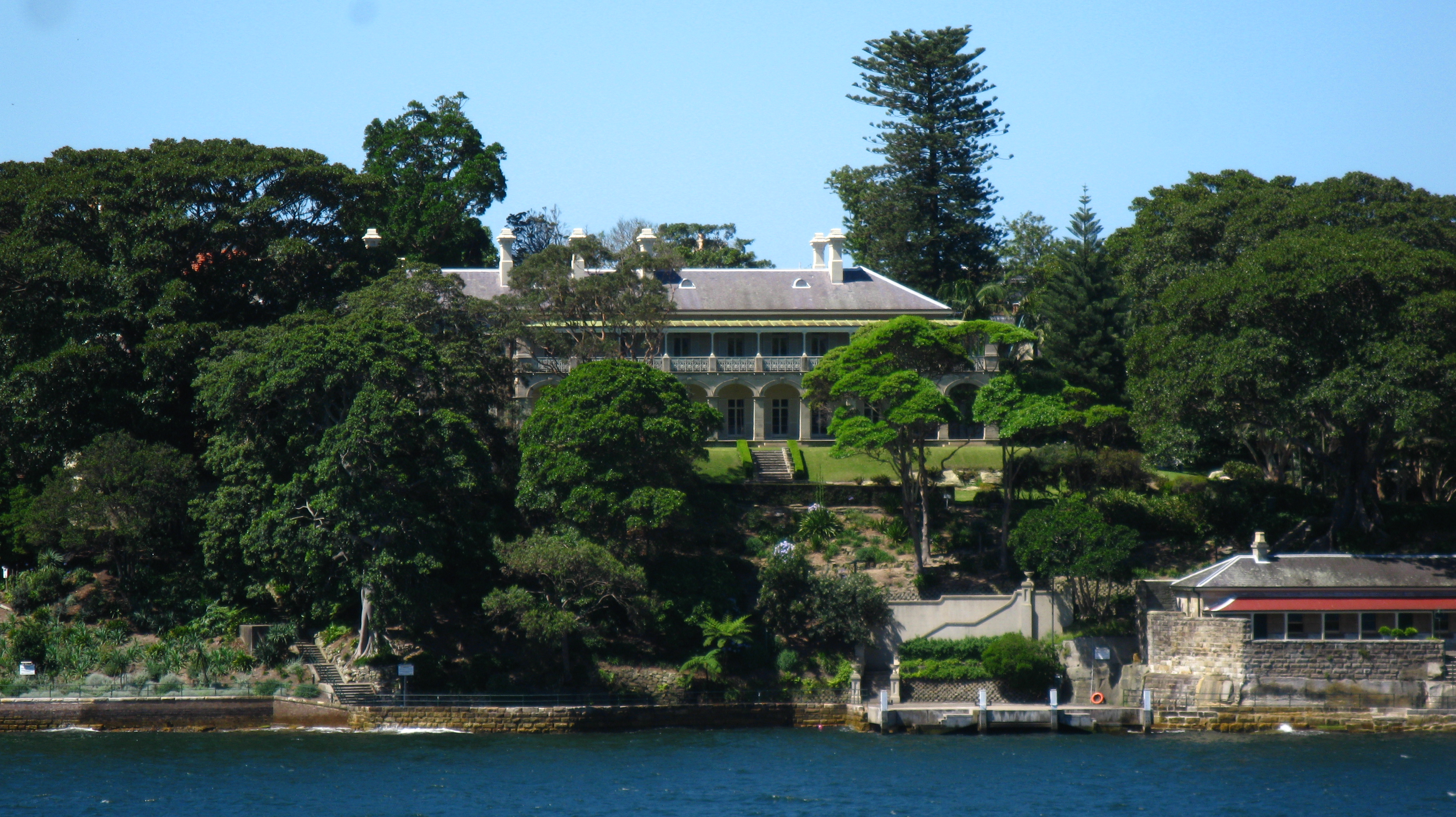 Admiralty House is the official Sydney residence of the Governor-General of Australia. Its current name originates in the fact that it served as the residence for the Commander-in-Chief of the Royal Navy’s Australia Squadron from 1885 to 1913. The original building on the site was completed, as a private dwelling, in mid-to-late 1843, by John George Nathaniel Gibbes, the then Collector of Customs for New South Wales and a member of the New South Wales Legislative Council. A portrait of Gibbes, painted in 1808, hangs in the house.